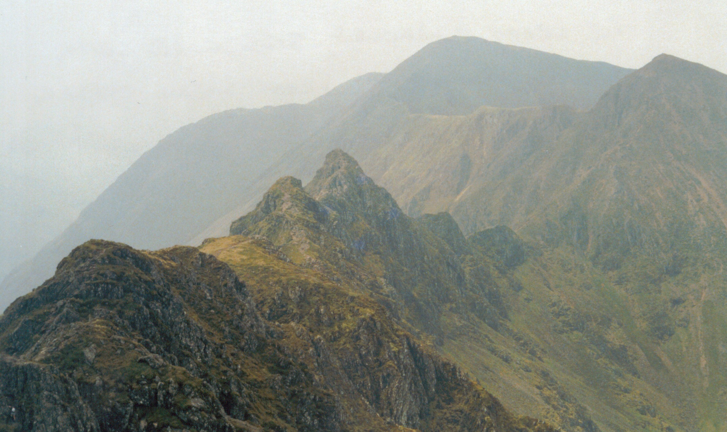 Crazy Pinnacles - Stob Coire Leith, Sgorr Nam Fiannaidh from Meall Dearg